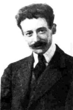 Victor Segalen (1878-1919)